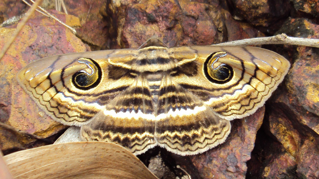 Spirama retorta